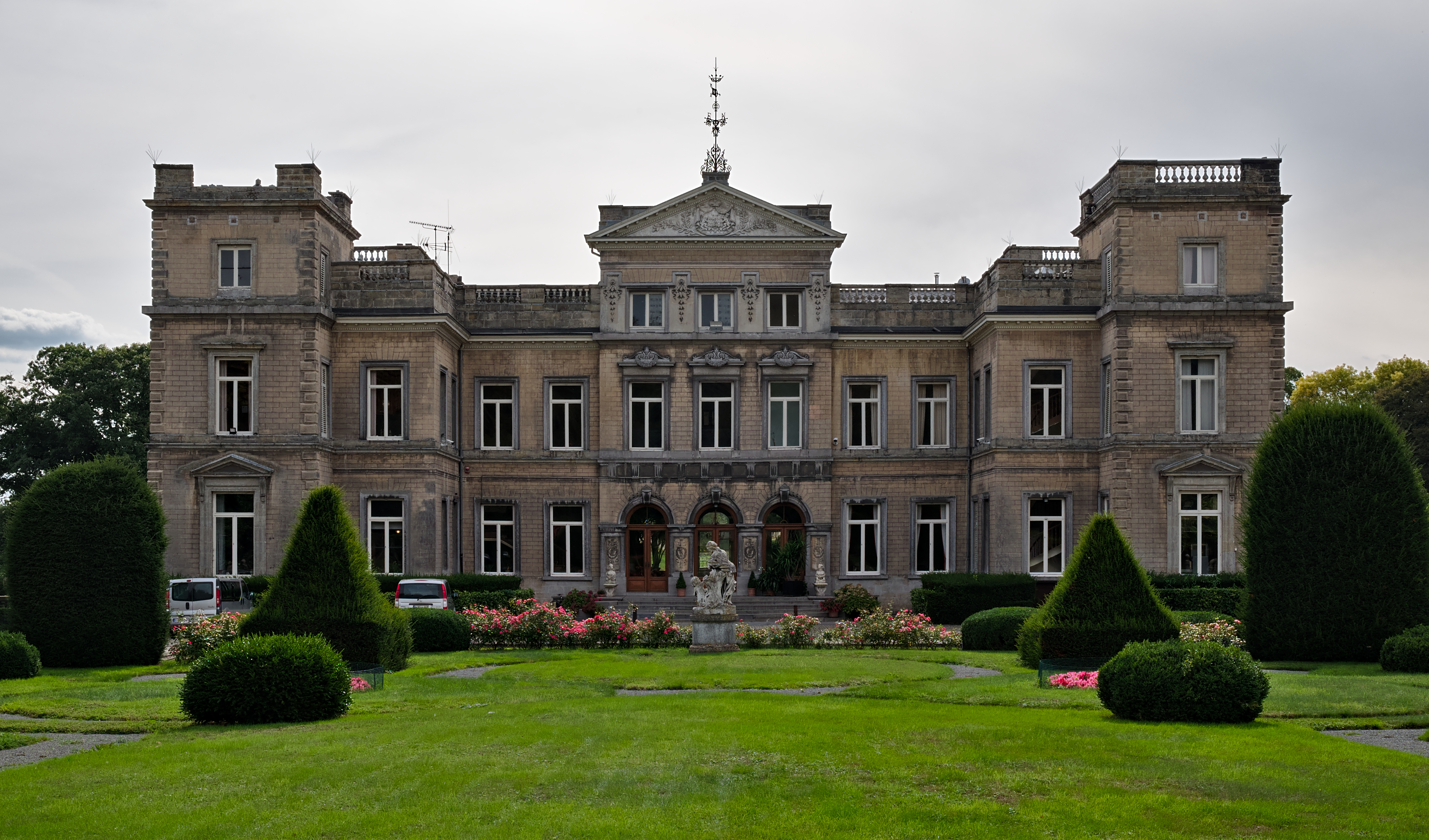 Castle Berliere in Ath